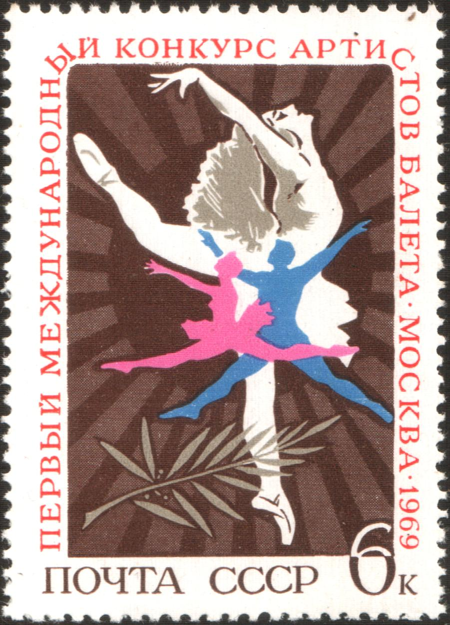 Stamp of the USSR "I International competition of ballet dancers in Moscow", 1969